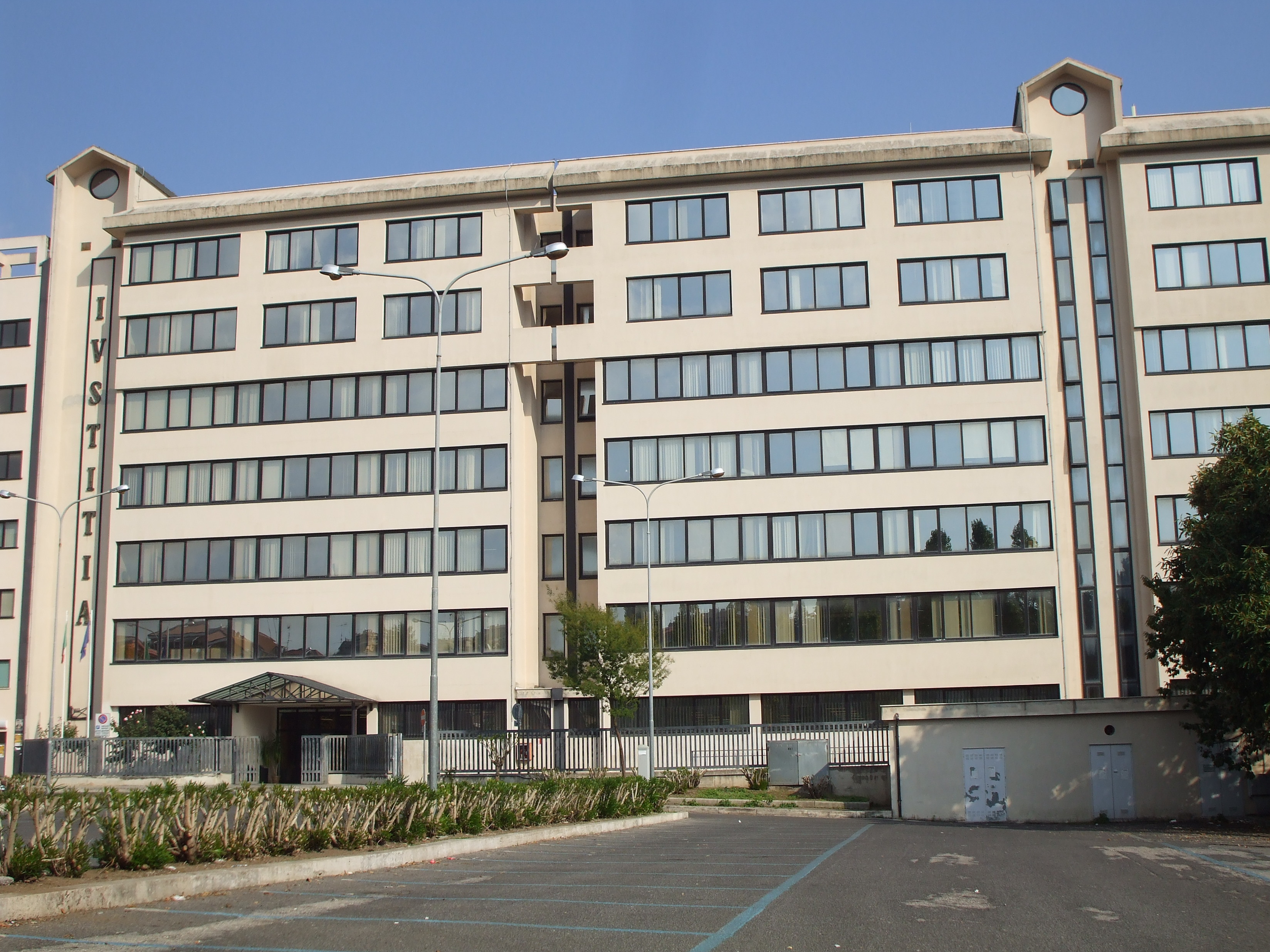 Velletri